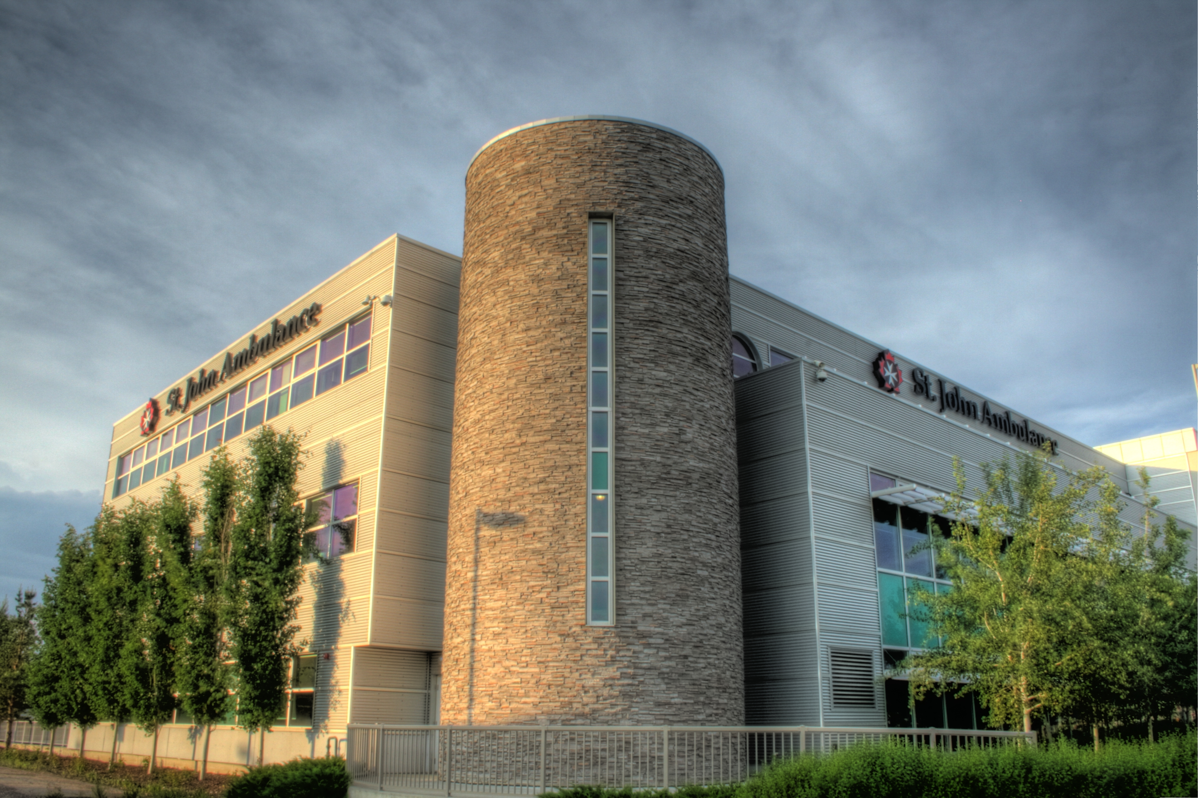 The St. John Ambulance building in Edmonton, Alberta, Canada.